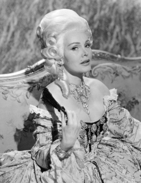 Photo of Zsa Zsa Gabor as Madame Brillon from an episode of the television anthology series Matinee Theater.